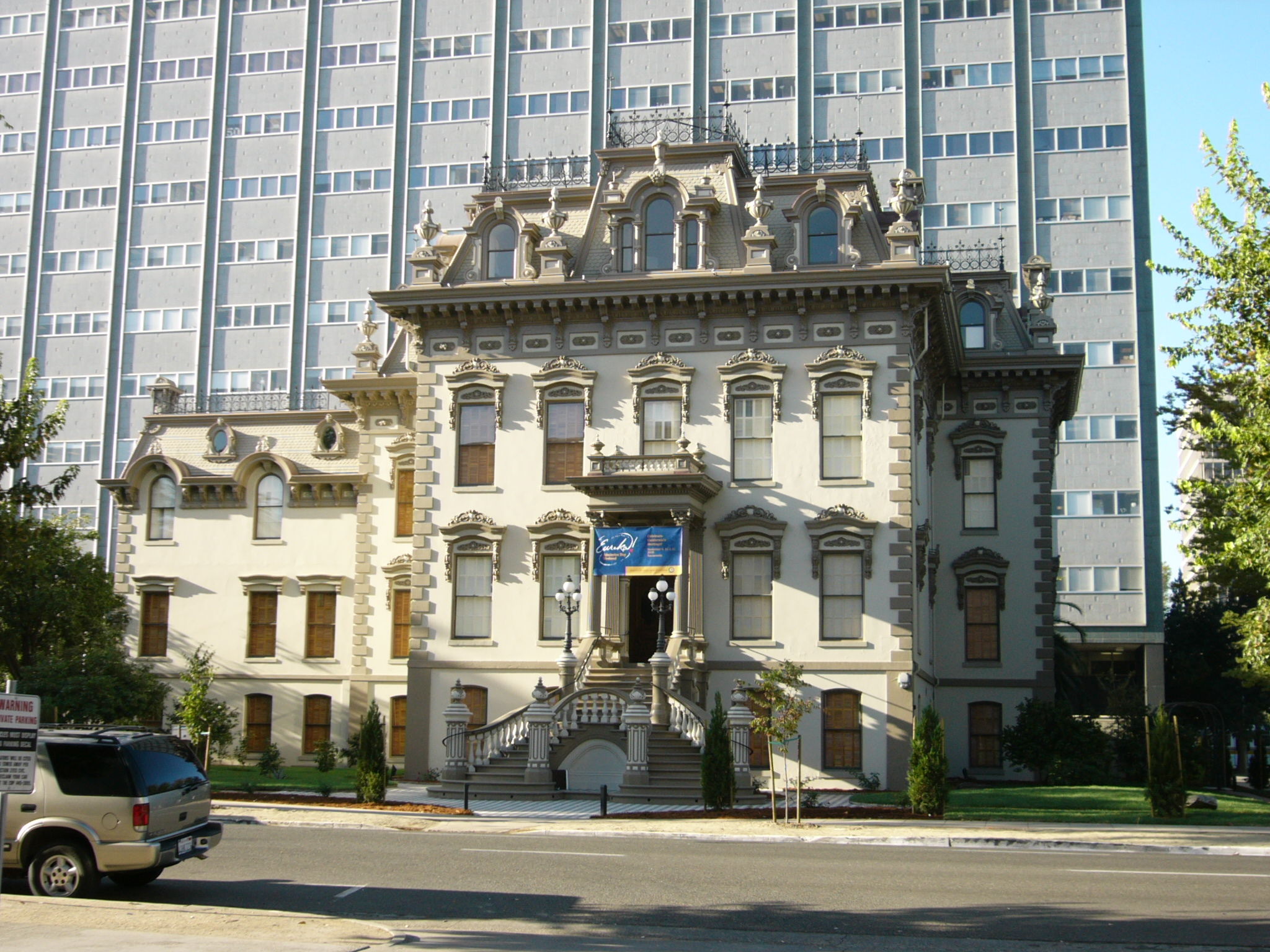 Photograph of the Leland Stanford Mansion in Sacramento taken in fall 2005. Built in 1857, the mansion was remodeled in 1871 in the Second Revival architectural style.